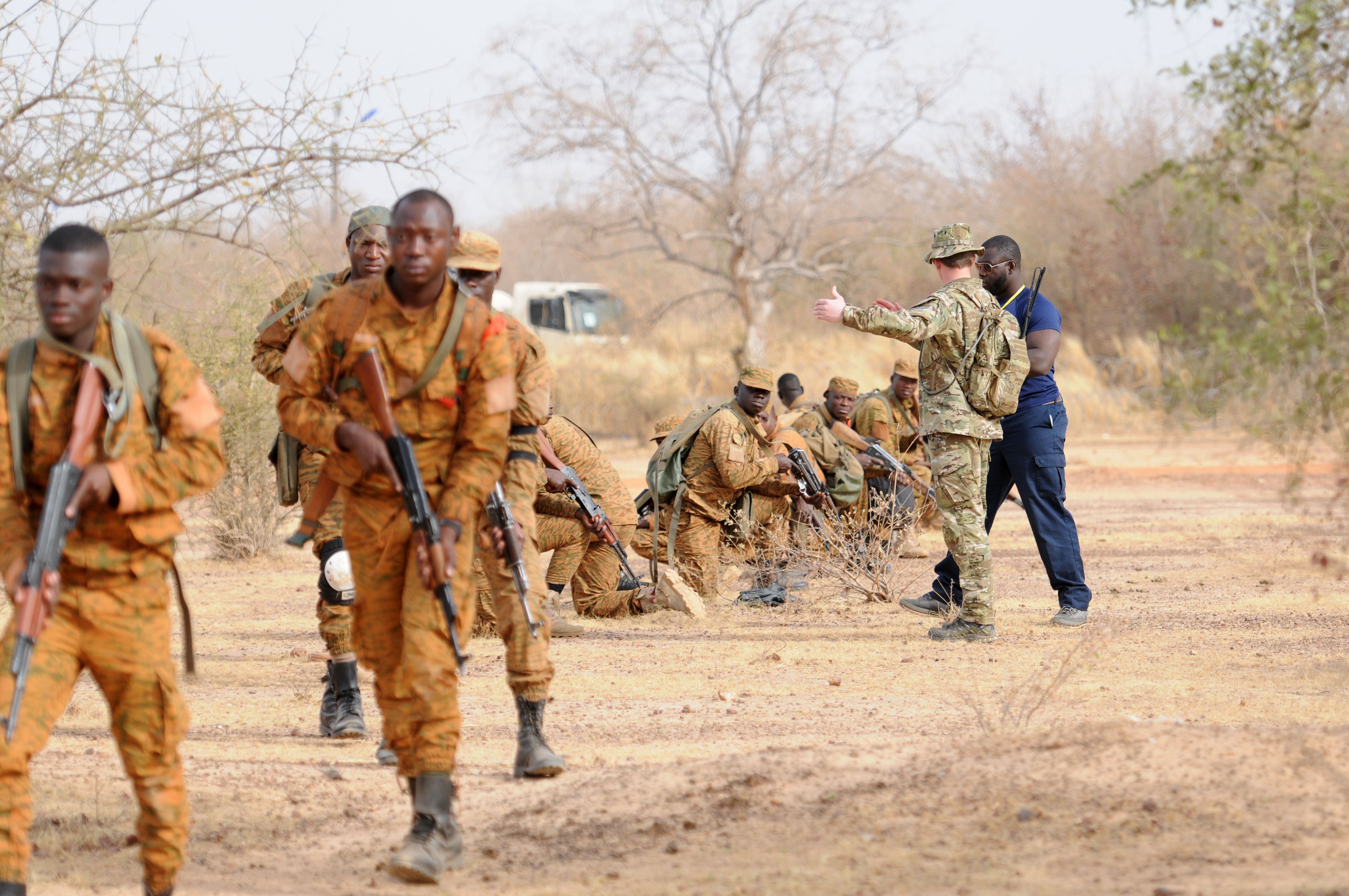 A Special Forces Soldier provides instructions to a translator for training on small unit tactics to Burkina Faso Soldiers, February 28, 2017 at Camp Zagre, Burkina Faso. Flintlock 2017 is designed to build the capacity of key partners to provide better security for the civilian population. (Photo by Spc Britany Slessman 3rd Special Forces Group (Airborne) Multimedia Illustrator/released) Unit: U.S. Africa Command DVIDS Tags: Special Operations; Burkina Faso; SOCAFRICA; Special Operations Command Africa; Flintlock17; Flintlock 2017